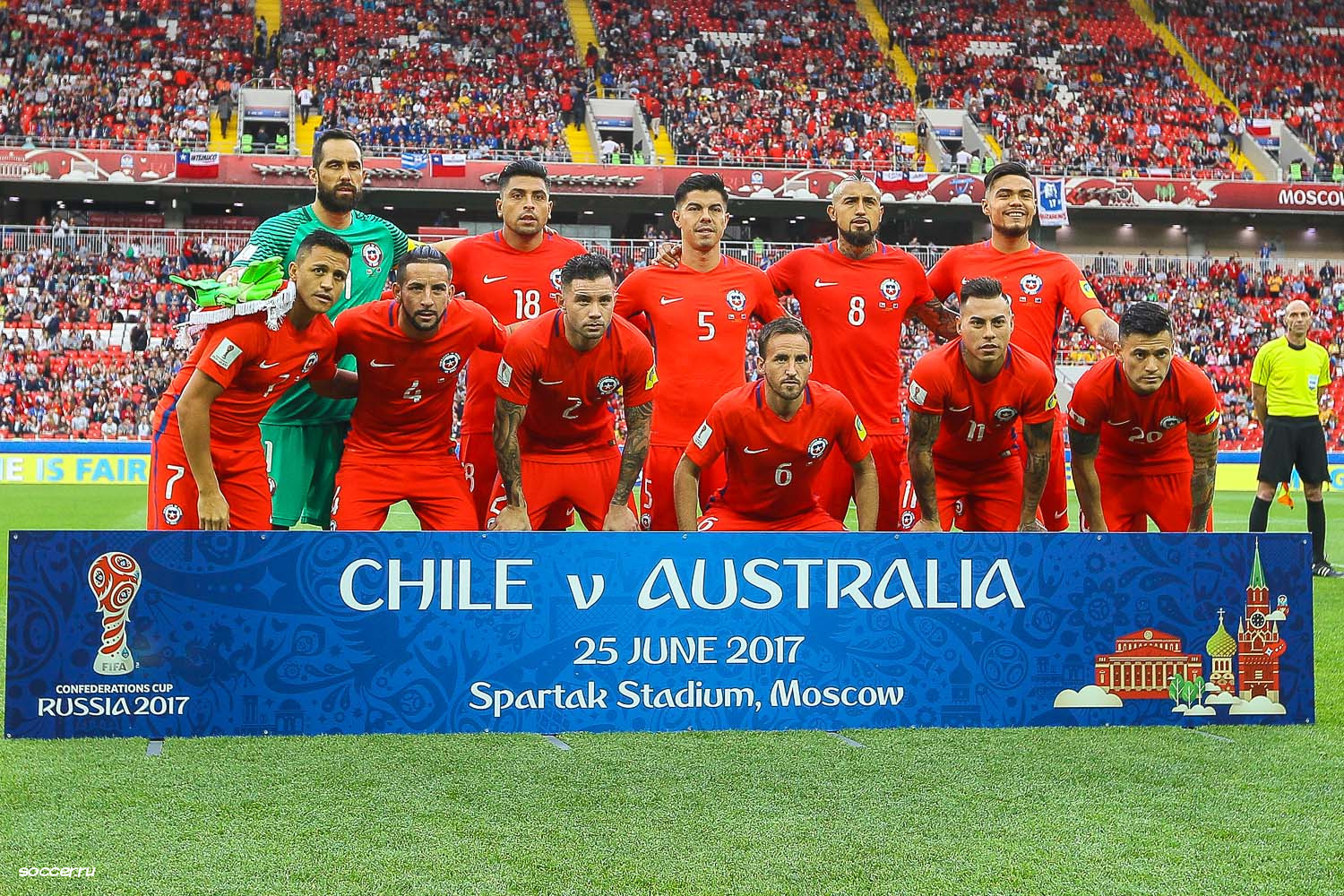 Chile VS. Australia 1 - 1, 25 June 2017